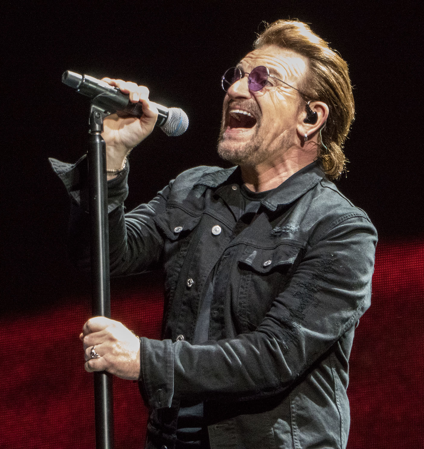 Bono singing during U2's performance at Lucas Oil Stadium in Indianapolis, Indiana on September 10, 2017